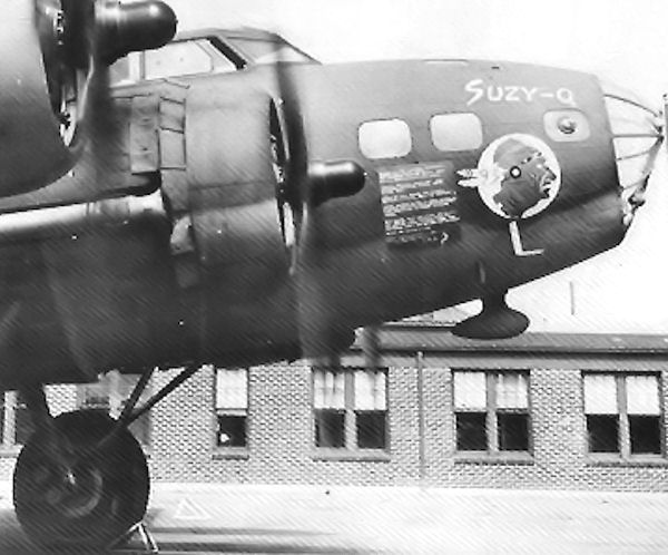 Boeing B-17E Fortress 41-2489, "Suzy-Q" was one of the most famous Flying Fortresses of the Pacific War. It was assigned to the 93d Bomb Squadron, 19th Bomb Group on 7 February 1942 and took part in all of the early Pacific battles except Midway, and is gunners claimed no less than 26 Japanese aircraft destroyed. (USAAF Photo)